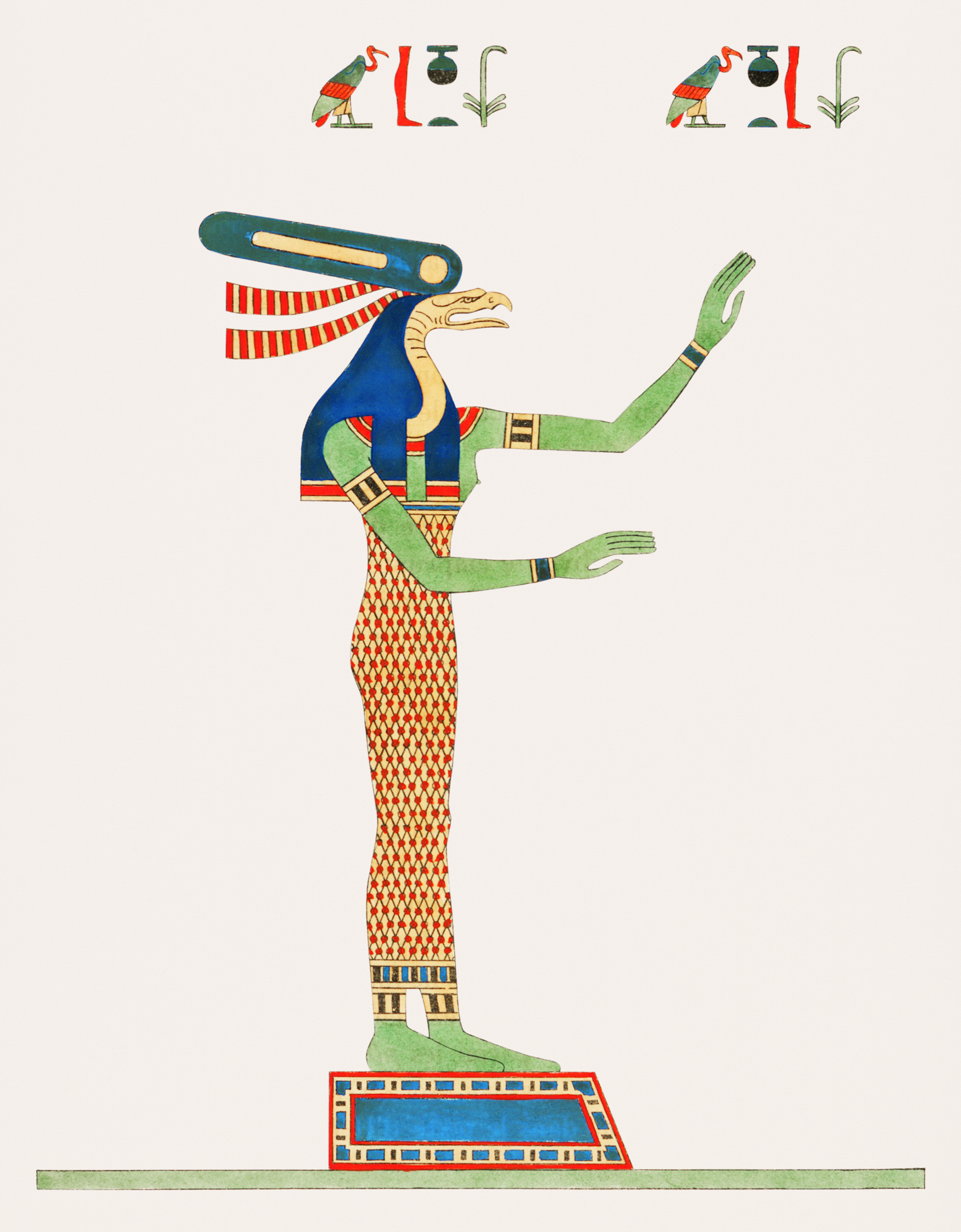 Wadjet illustration from Pantheon Egyptien (1823-1825) by Leon Jean Joseph Dubois (1780-1846). Digitally enhanced by rawpixel.